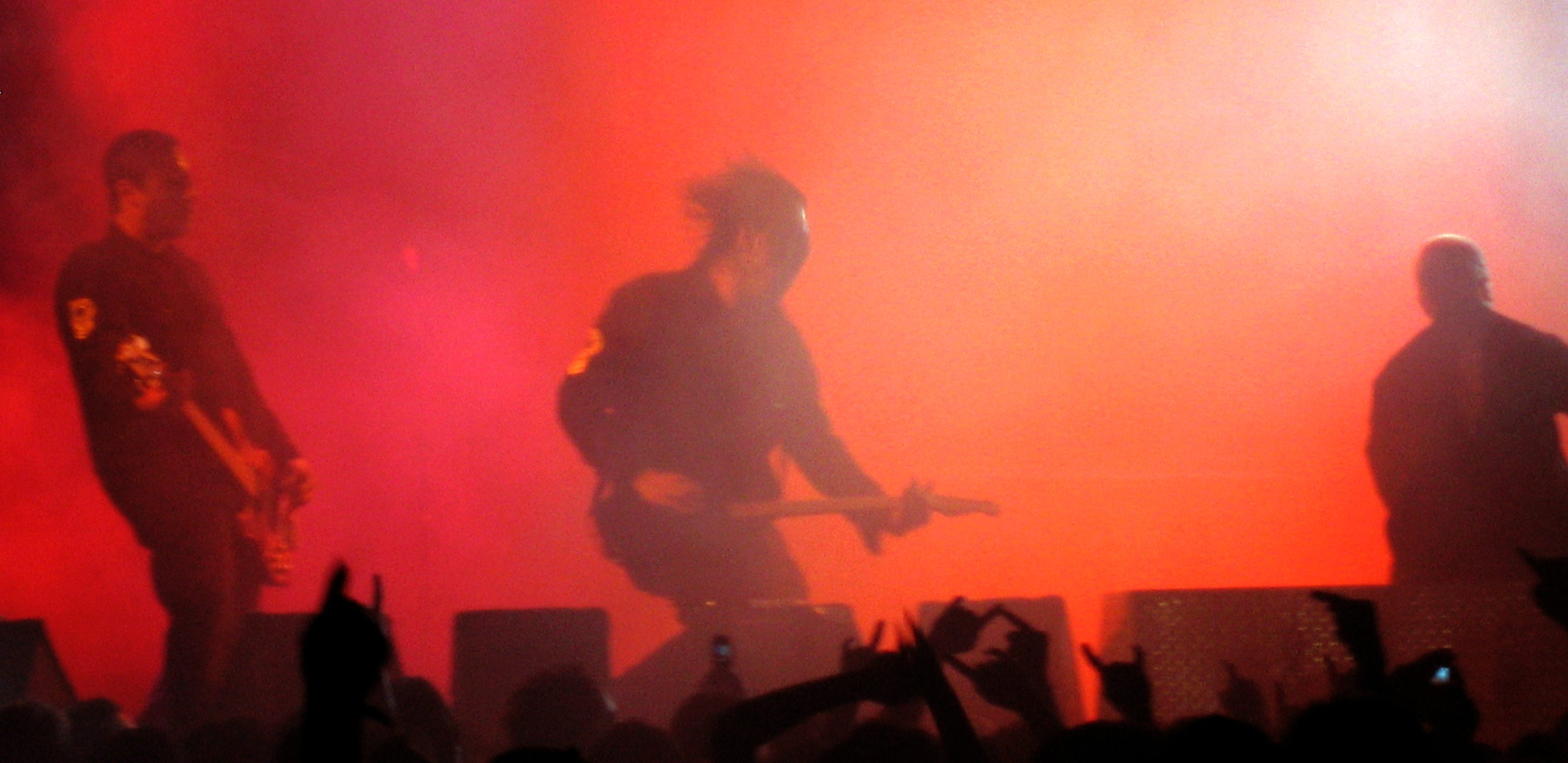 Slipknot performing at Bex Rock in 2005